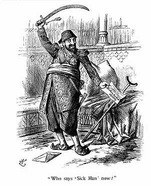 Abdülhamid II celebrates the Turkish victory at the Greco-Turkish War of 1897 by asking "who says Sick Man now?"